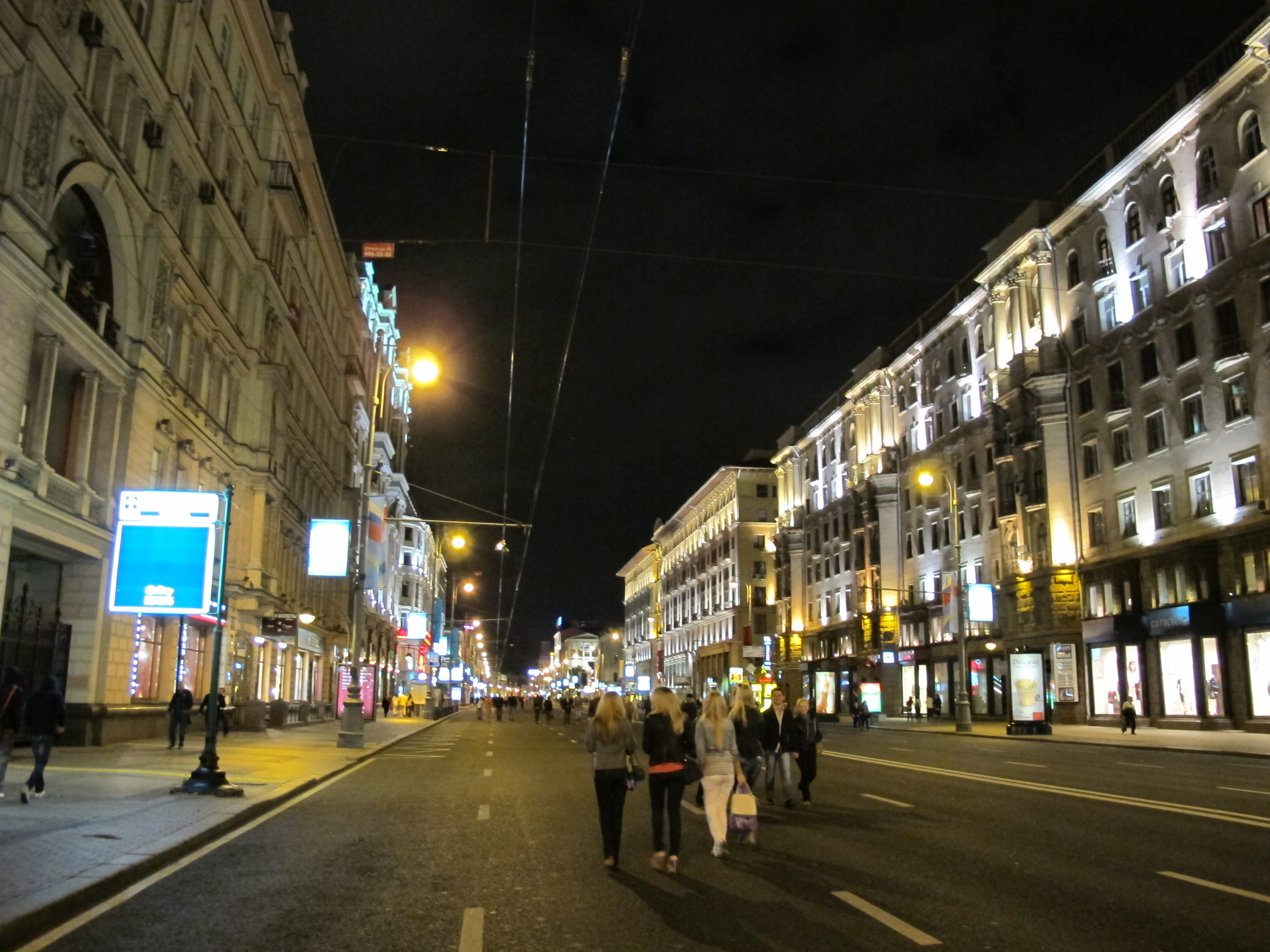 Tverskaya Street in Moscow by night (no cars)